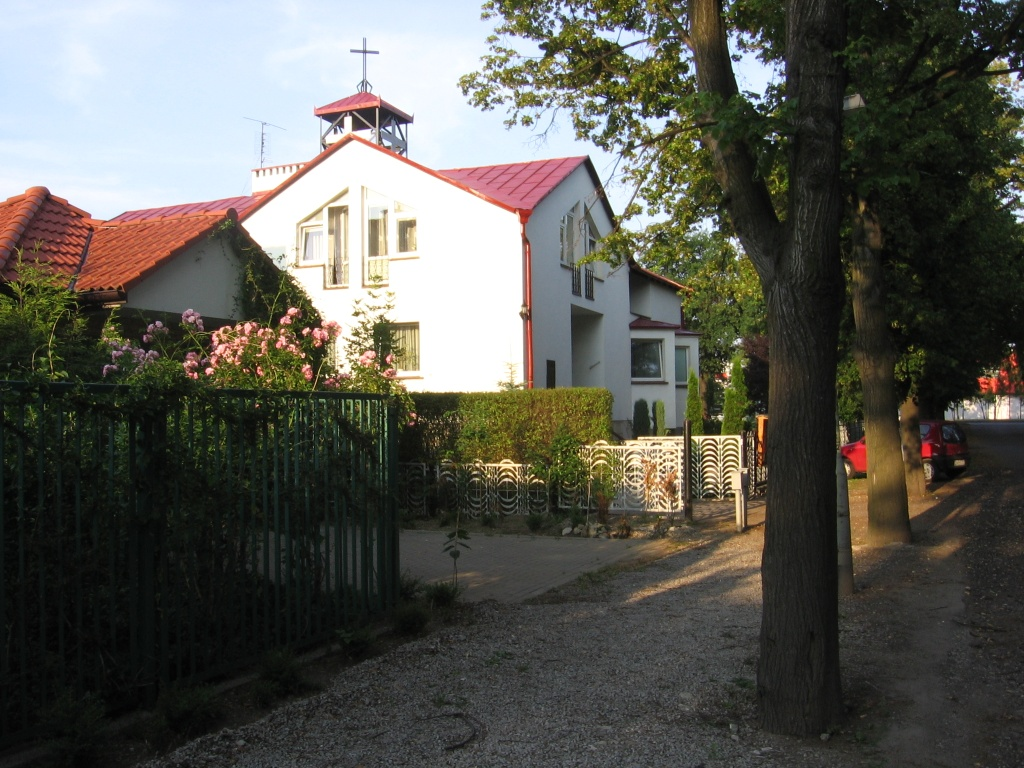 Wrocław, Poland, settlement Mirowiec, Kętrzyńska street Our Lady Graciousness Church (erected 1987-89, consecrated 27.8.1989)